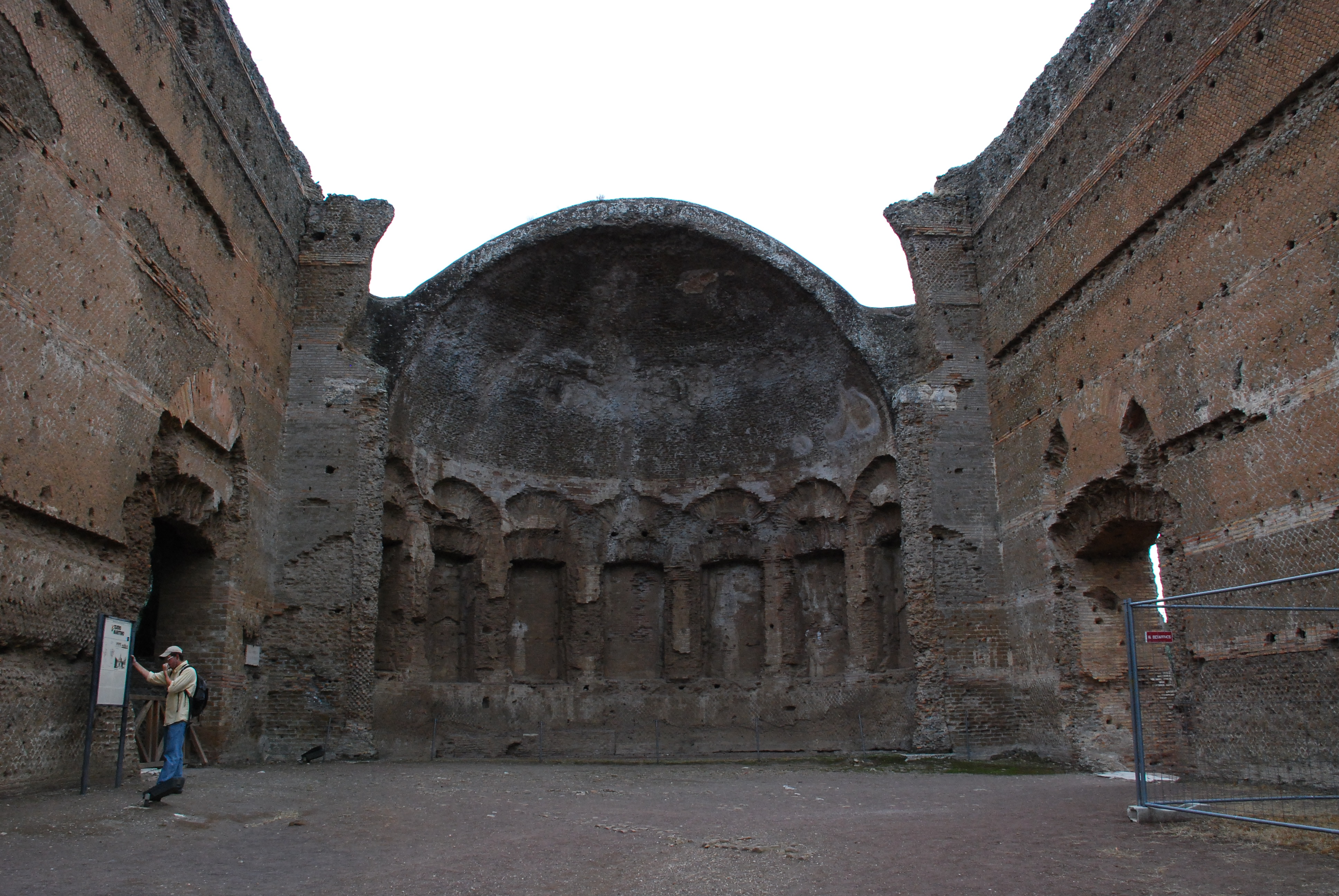 Villa Adriana, residence of Emperor Hadrian near Tivoli, the most extensive ancient roman villa, covering an area of at least 80 hectares.